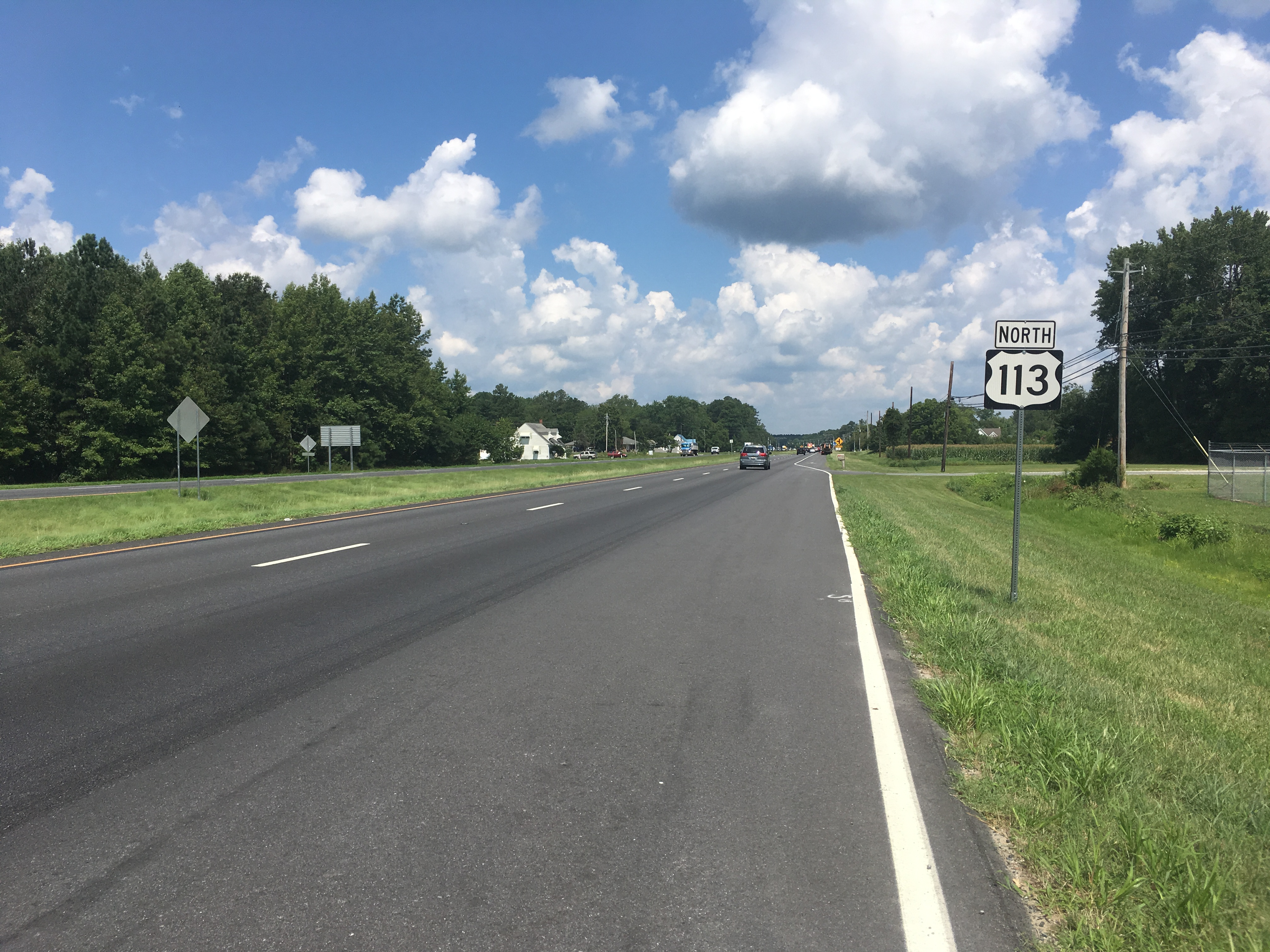 Northbound U.S. Route 113 (Dupont Boulevard) past the intersection with North Bedford Street in Georgetown, Delaware